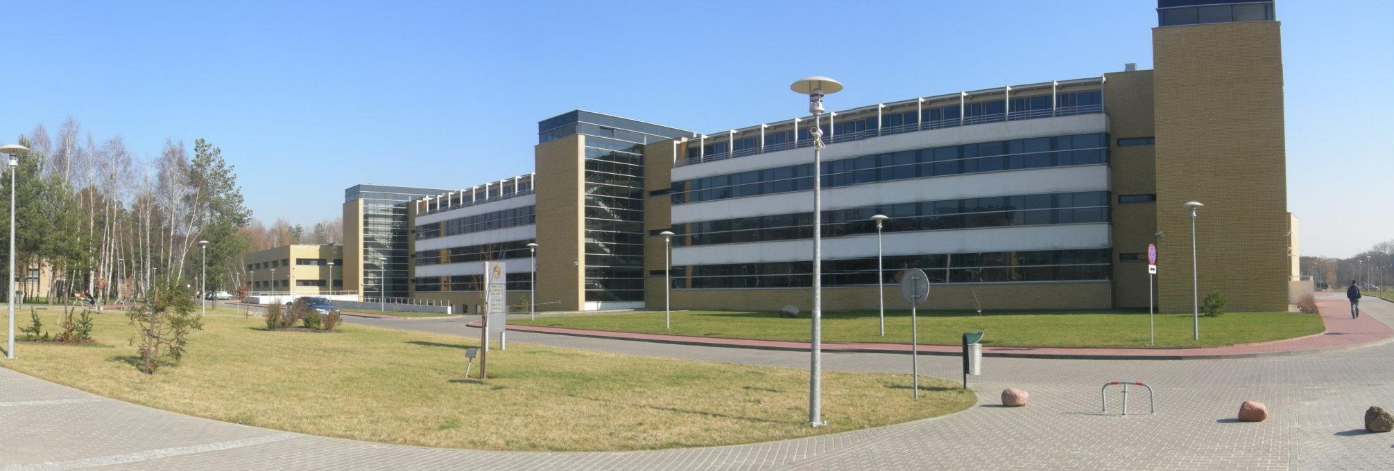 Adam Mickiewicz University in Poznań, Poland